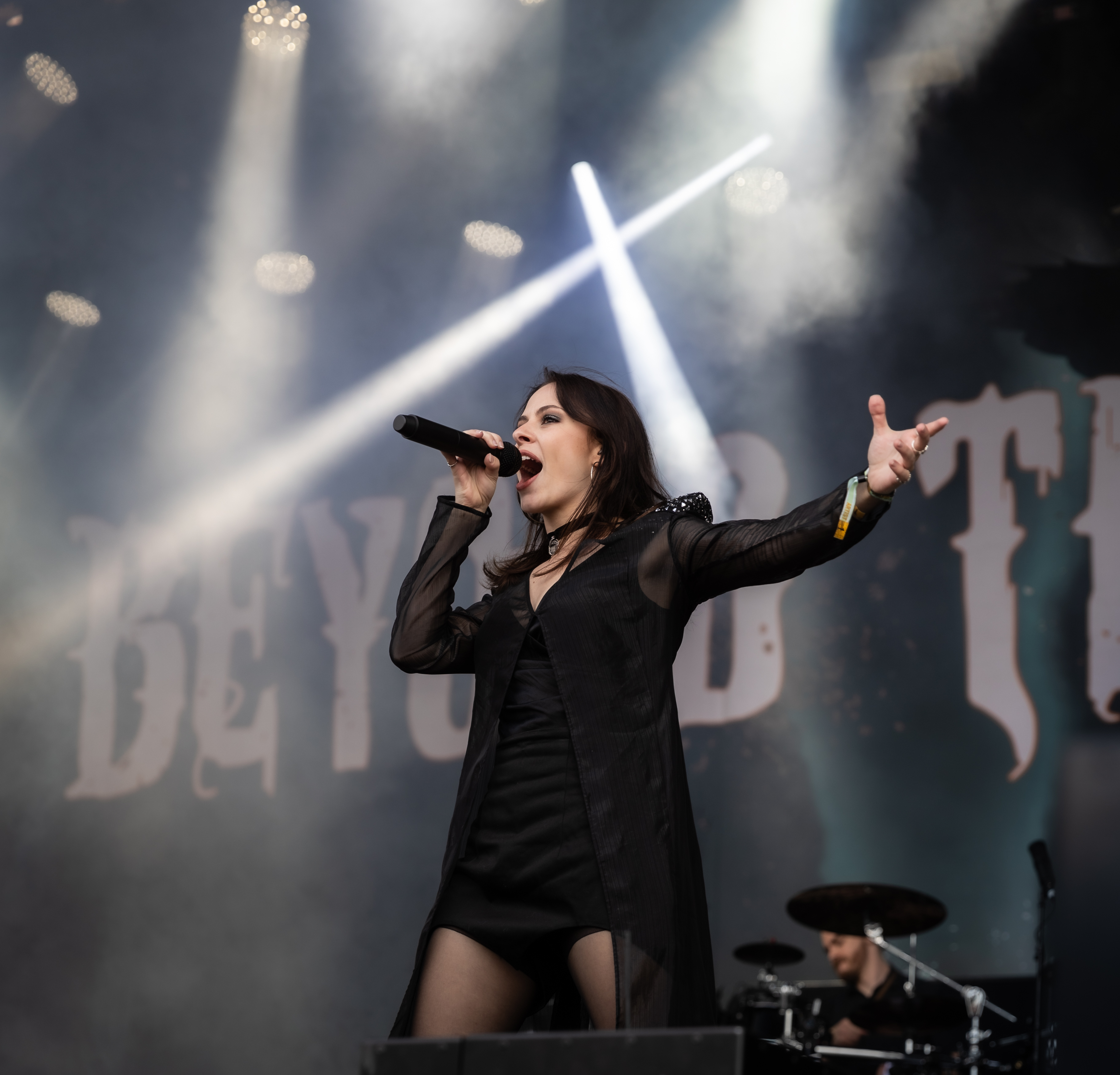 Beyond the Black (Jennifer Haben) - Rock am Ring 2019